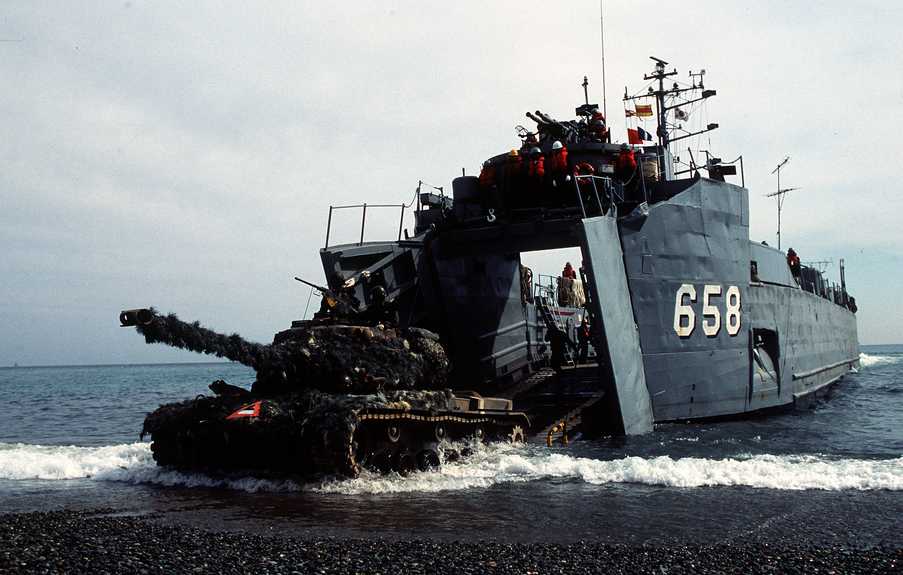 ID: DF-ST-92-00647 Service Depicted: Air Force Command Shown: F3217 Operation / Series: TEAM SPIRIT `91 An M-48 main battle tank drives ashore from the South Korean medium landing ship KI RIN (LSM-658) during the joint South Korean/U.S. Exercise Team Spirit '91.